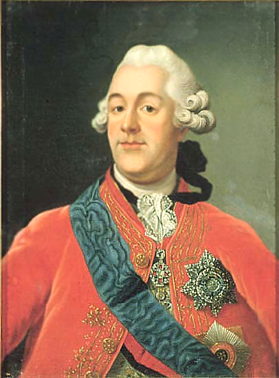 Portrait of Ivan Ostermann (1725-1811)